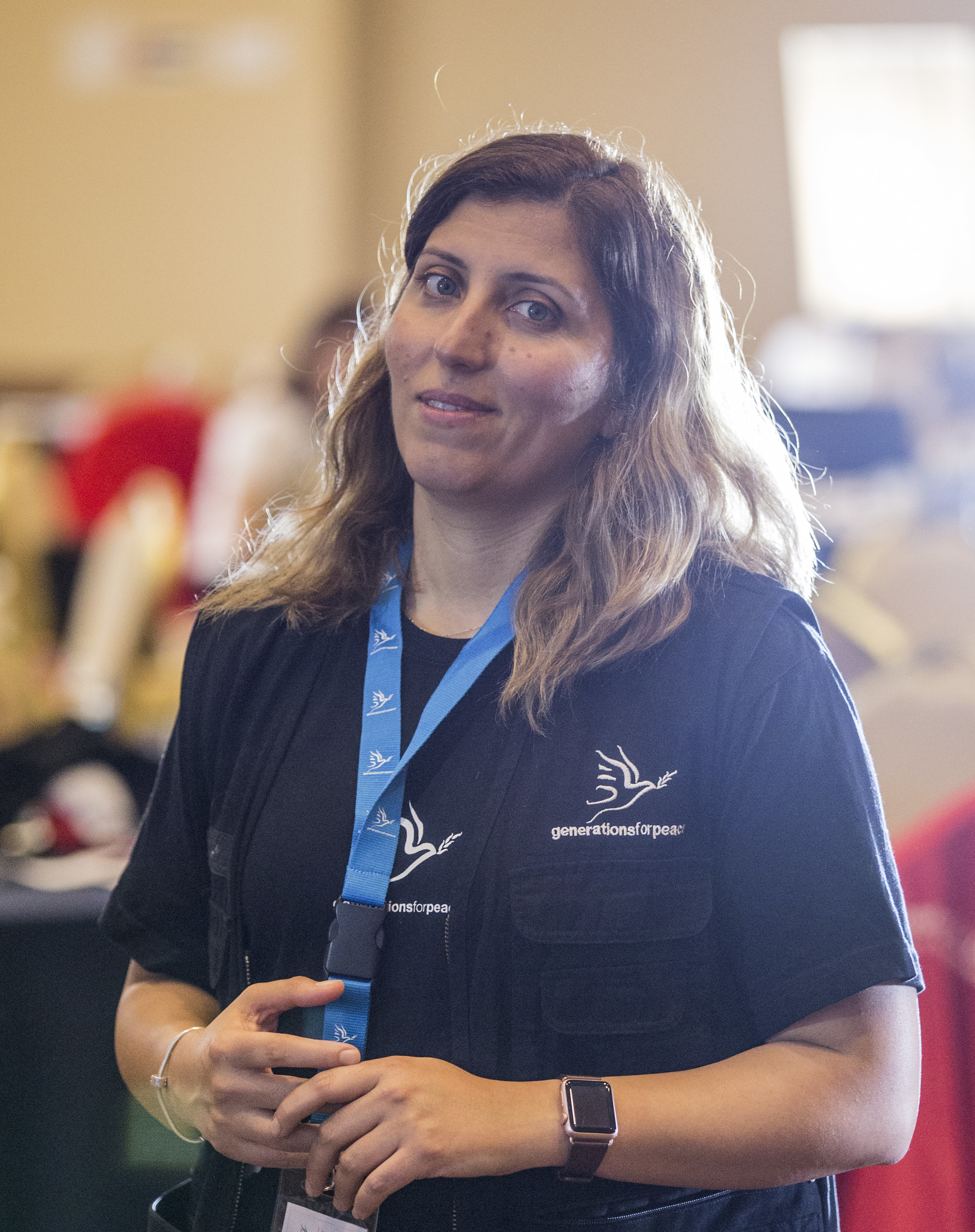 لما خلال التدريب في هيئة أجيال السلام